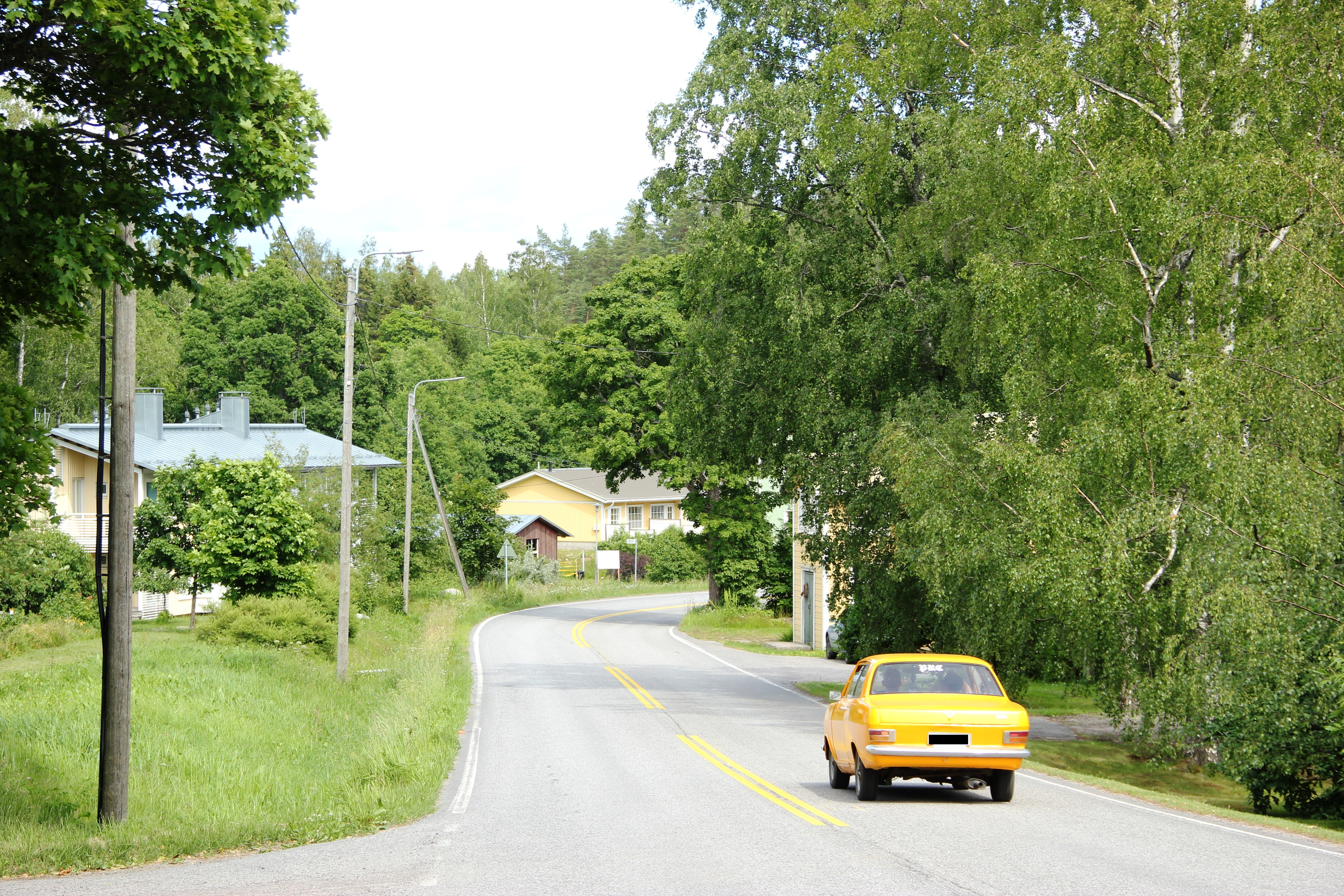 The village road near the harbour in Bromarv, Finland. An old Opel Kadett driving from the harbour.